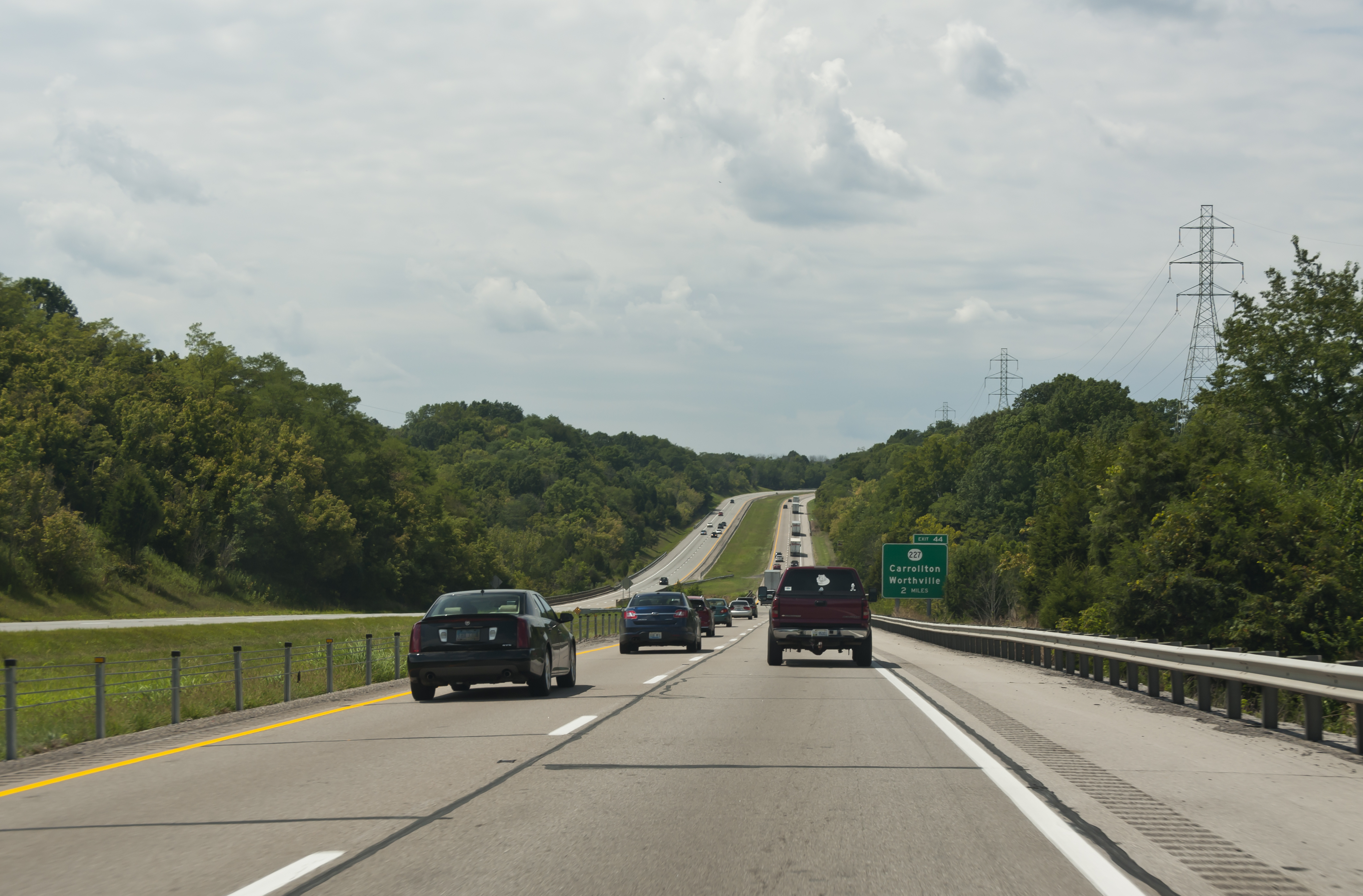 I-71 (Southbound) through the hills of Kentucky, between Cincinnati and Louisville around mile marker 46